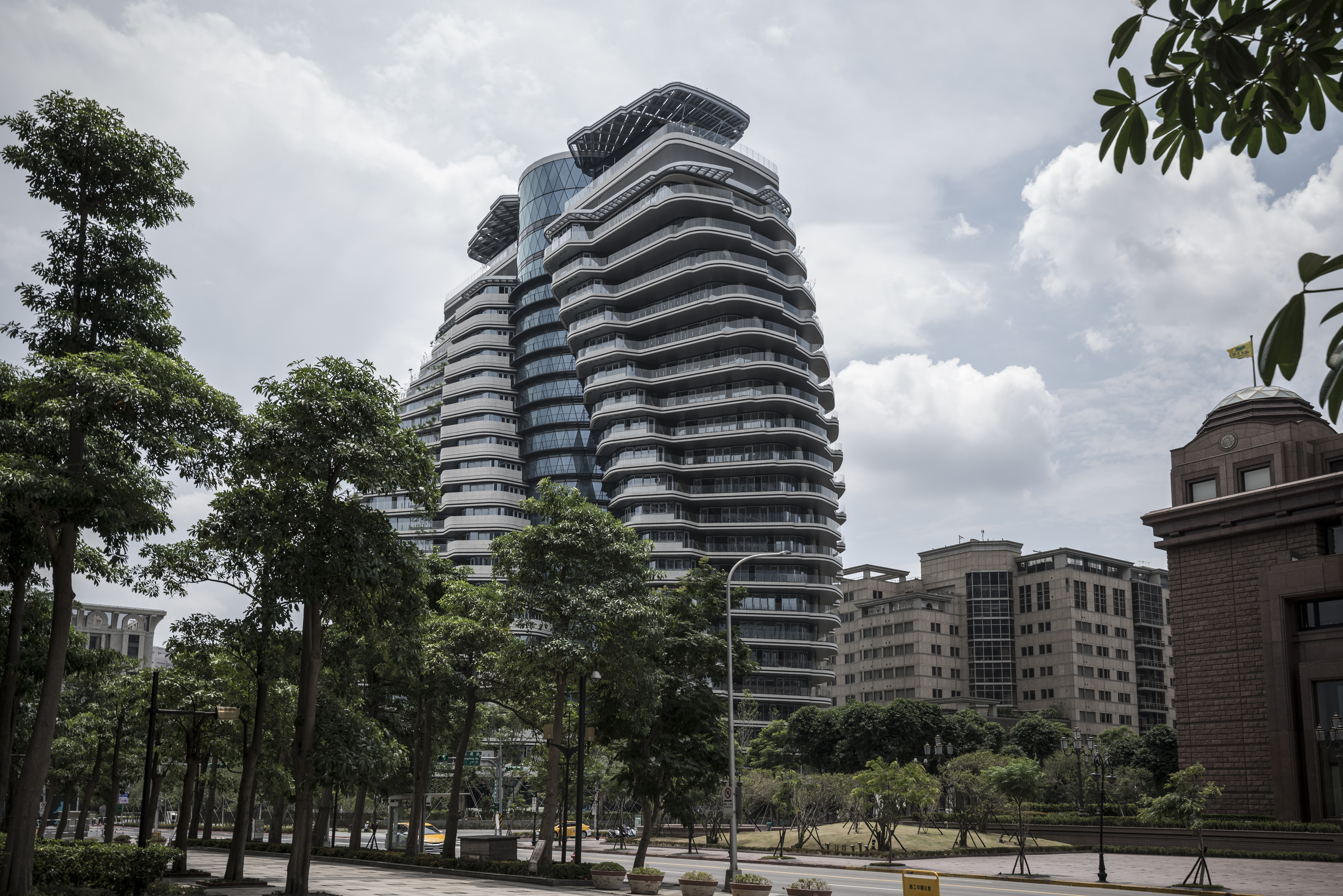 View of residential building Agora Tower (Tao Zhu Yin Yuan) located in Taipei, Taiwan nearing completion in August 2018